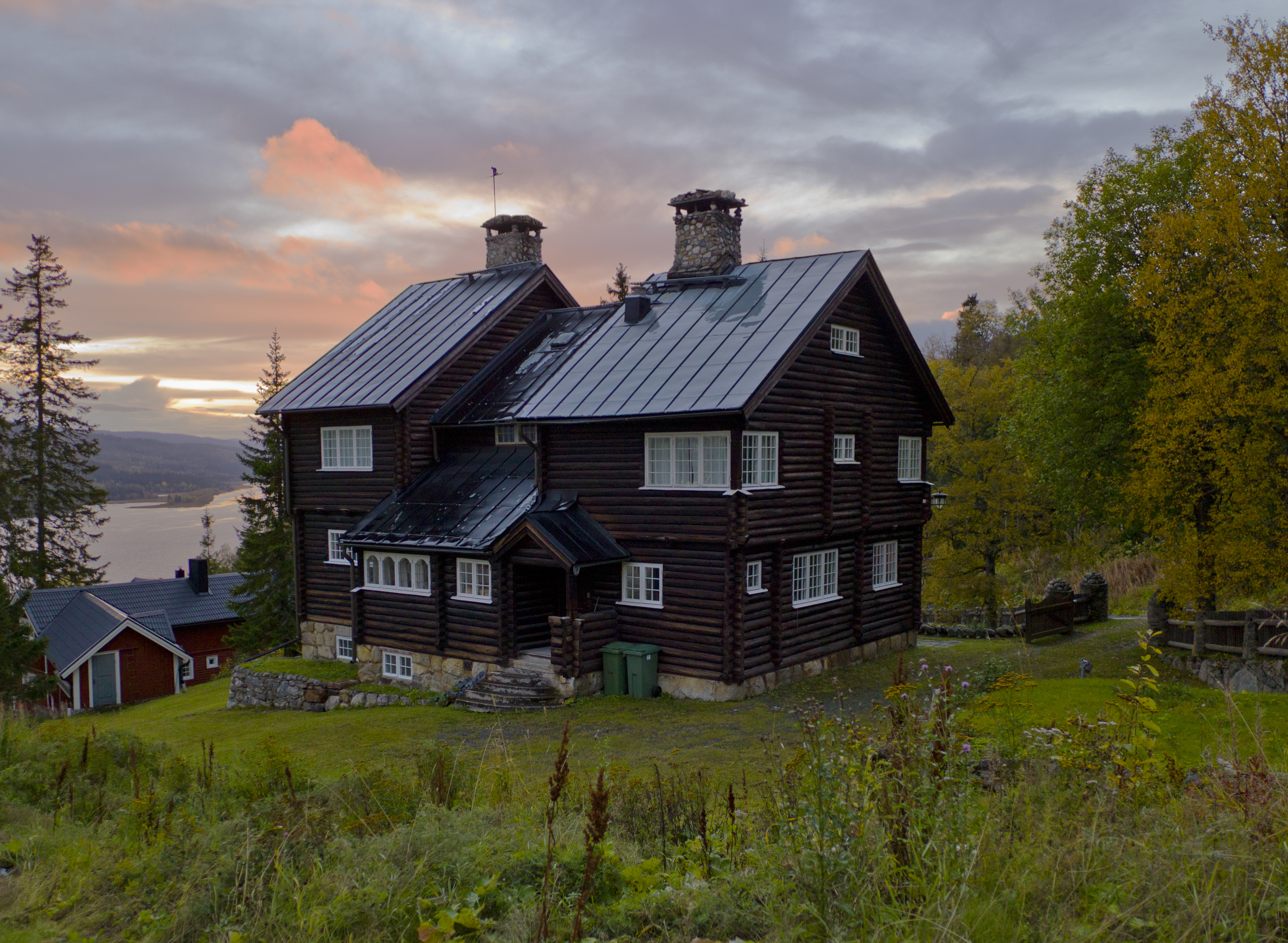 Villa Jamtbol or The Doctor's Villa, built in 1911.